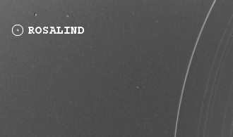 Rosalind - moon of Uranus